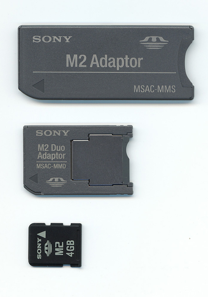 Memory Stick Micro(M2) and M2 Adaptor